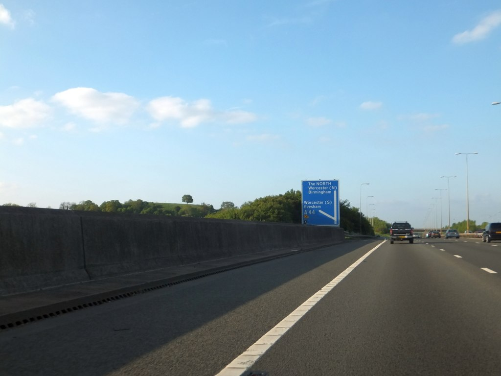 Parapet of M5 railway bridge and signs for Junction 7